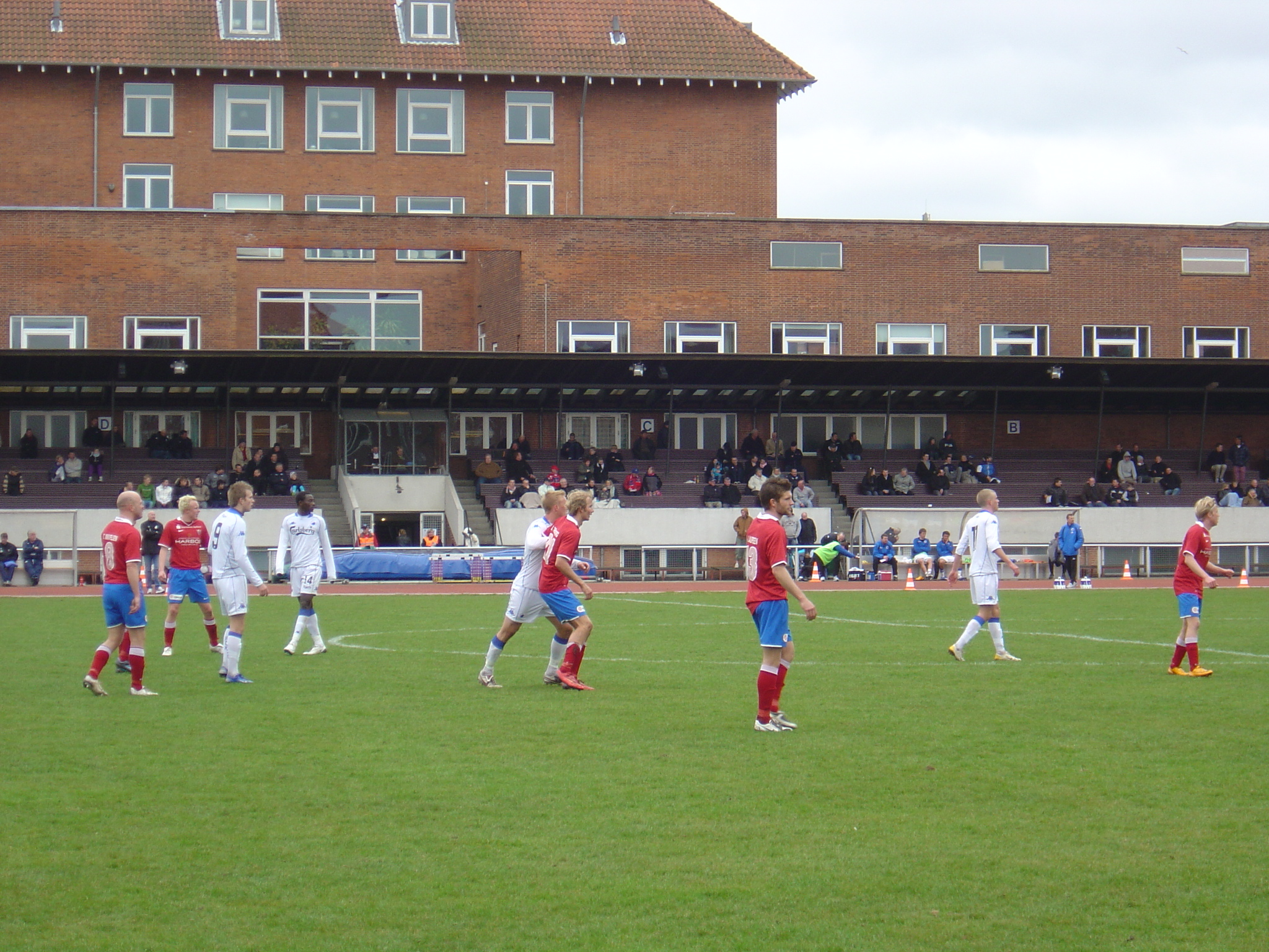 F.C. Copenhagen (II) against FC Vestsjælland — match action during a Danish 2nd Division East (level 3) match between the two Danish Association football clubs of F.C. Copenhagen (reserve team) and FC Vestsjælland on 5 April 2009 at Frederiksberg Idrætspark.